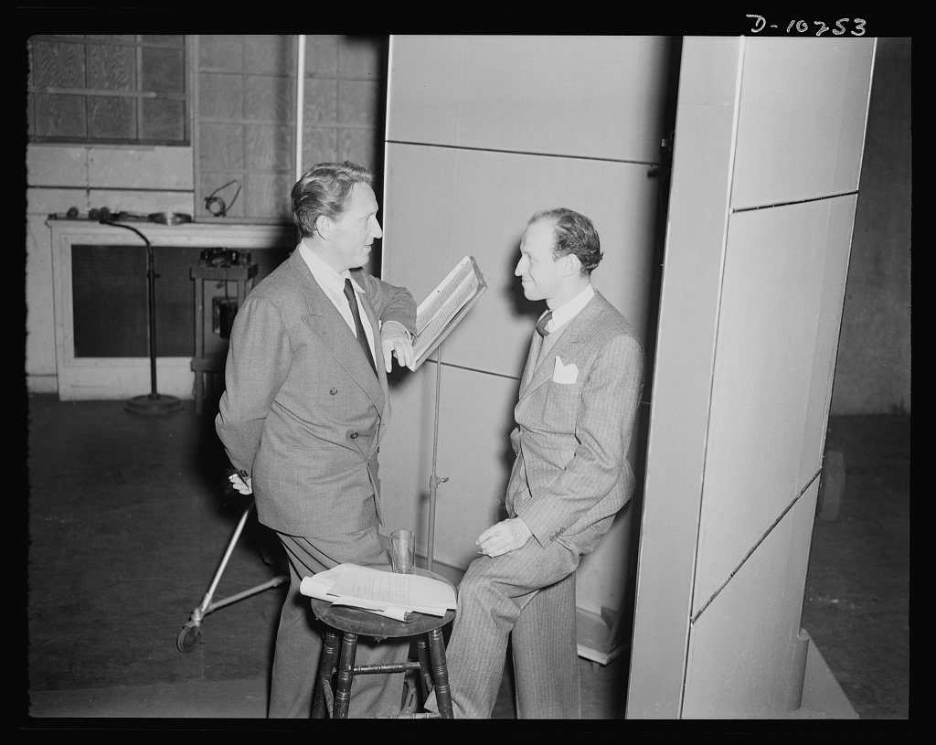 Spencer Tracy, narrator and Garson Kanin, director, at the Long Island Studios of the Army Signal Corps for the recording of Spencer Tracy's narration of the "Ring of Steel," an Office of Emergency Management (OEM) film, on February 19th, 1942.